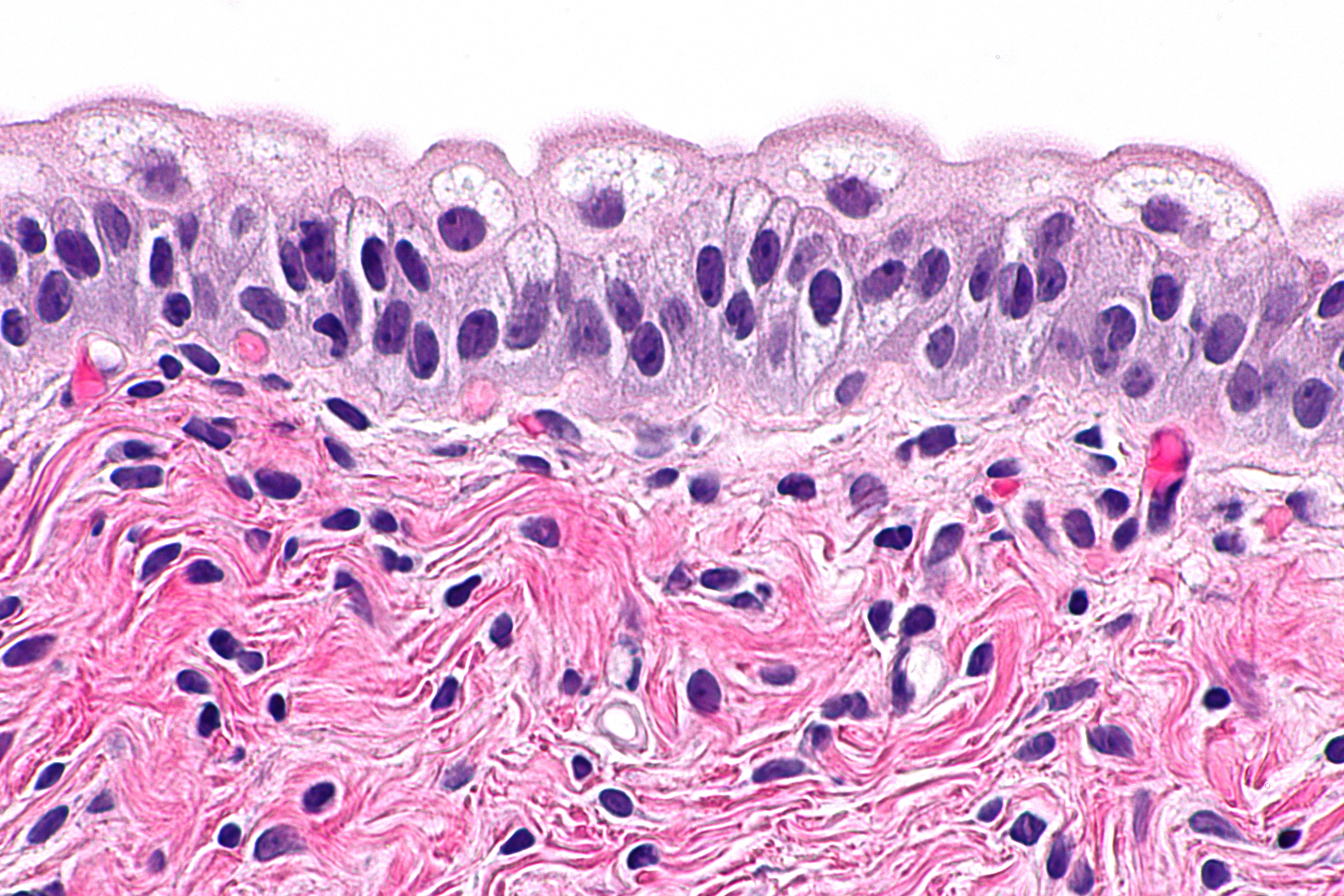 Micrograph showing benign urothelium with large superficial cells, also urothelium with benign mildly atypical umbrella cells and urothelium with benign atypical superficial cells. H&E stain. Atypical umbrella cells should not be over called urothelial carcinoma in situ or urothelial dysplasia.[1] Related images Benign large superf. cells - intermed. mag. Benign large superf. cells - high mag. Benign large superf. cells - very high mag. References ↑ URL: Accessed on: 8 January 2014.